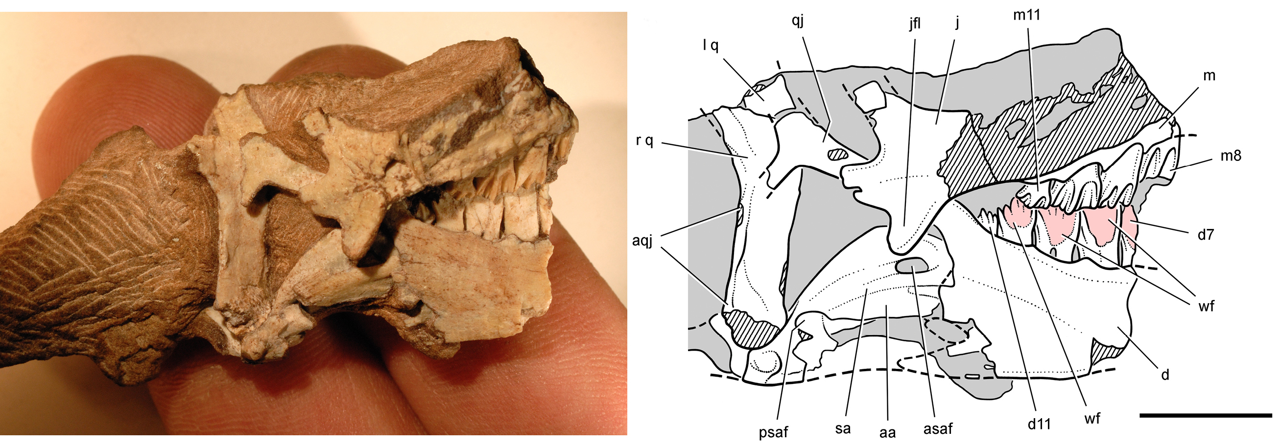 Posterior end of the skull of Heterodontosaurus tucki from from the Lower Jurassic Upper Elliot and Clarens formations of South Africa. Posterior portion of a juvenile skull (AMNH 24000). Photo and line drawing in right lateral view. Hatching indicates broken bone; dashed lines indicate estimated edges; grey tone indicates matrix; pink tone indicates wear facets. Scale bar equals 1 cm Abbreviations: aa articular surface for angular aqj articular surface for quadratojugal asaf anterior surangular foramen d dentary d7, 11 dentary tooth 7, 11 j jugal jfl jugal flange l left m maxilla m8, 11 maxillary tooth 8, 11 psaf posterior surangular foramen q quadrate qj quadratojugal r right sa surangular wf wear facet.